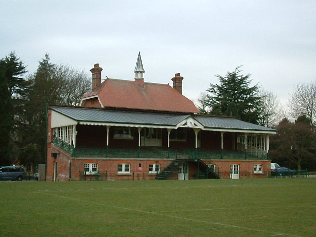 Cricket Pavilion, Clarence Park. Built for the opening of the park in 1894. Originally used by all sports using the park. The football club built their own facilities in the 1920s. Now only used by the hockey and cricket clubs.